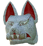 Modified version of Image:Fox0290.jpg. For possible use on stub template.